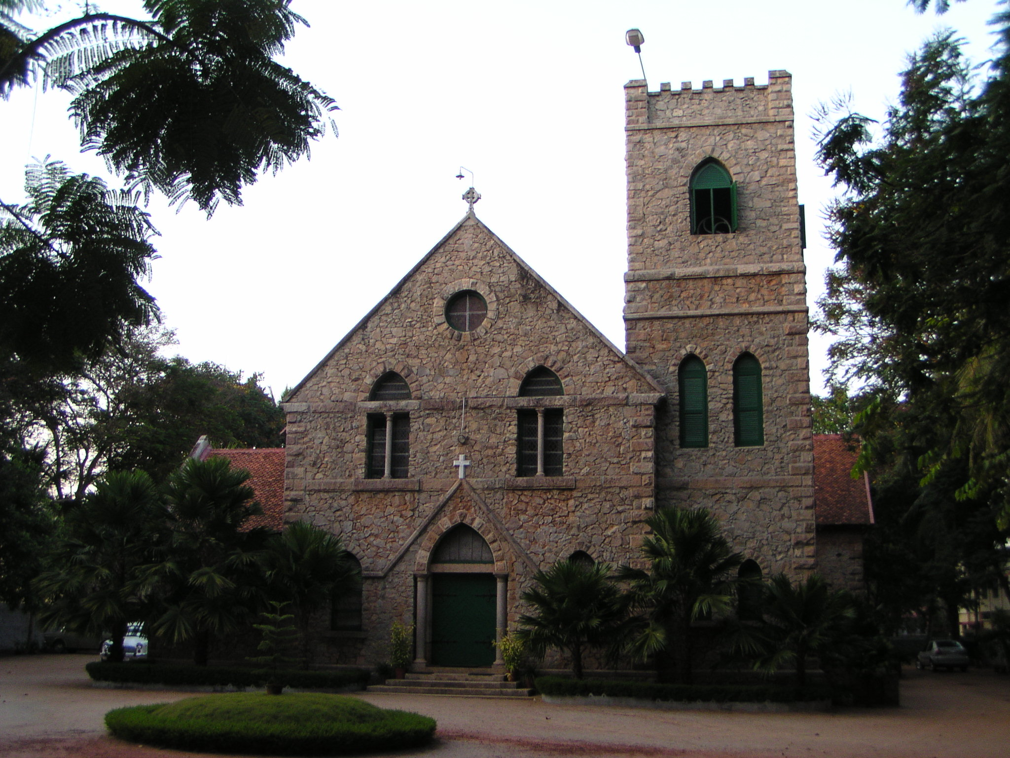 Church